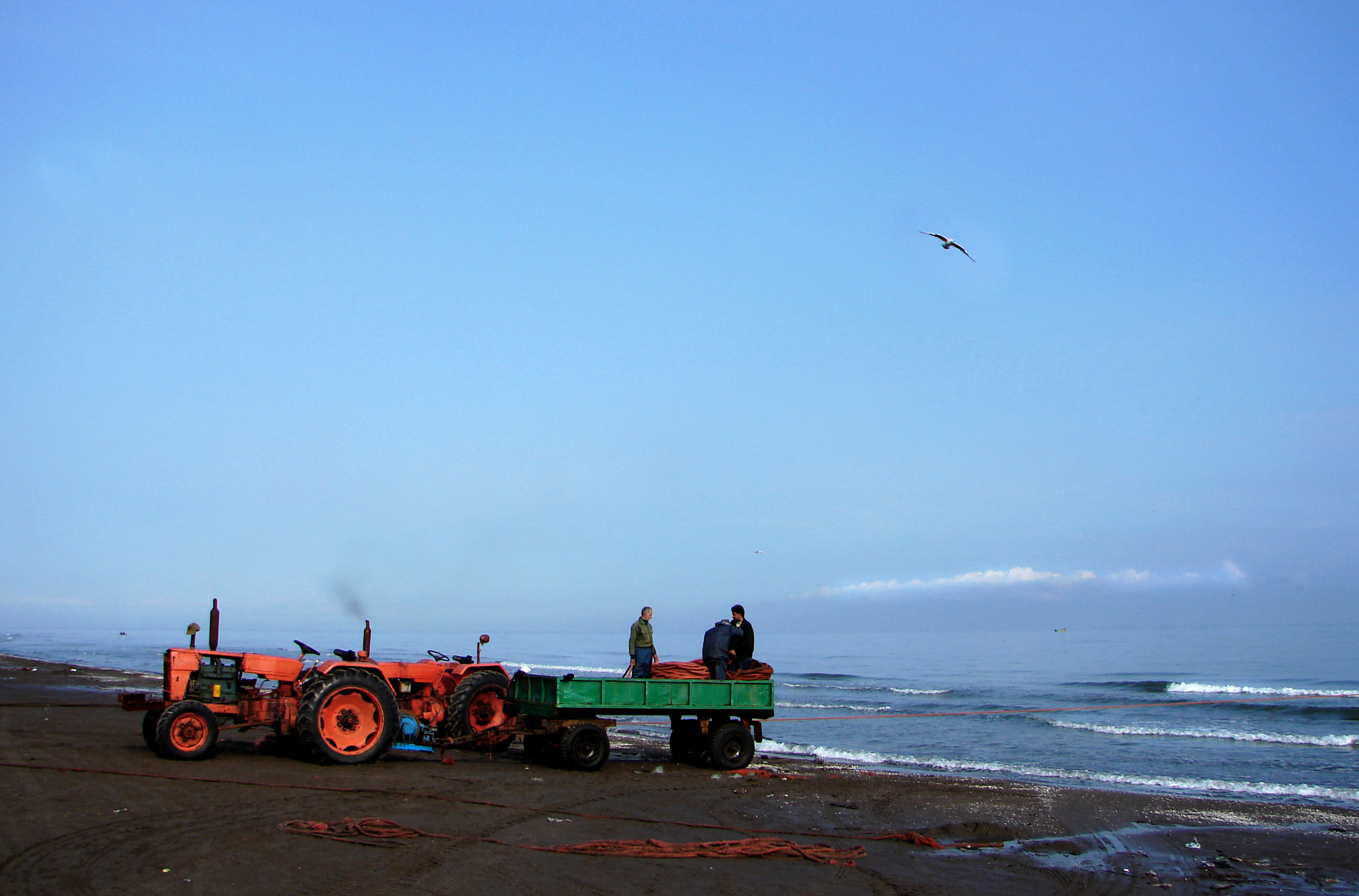 Original caption: They are tightening the creel. The back tractor contains a huge winch, which pulls the orange rope, and the tractor is attached to a heavy concrete stone box with another thick rope (in front of it). The other tractor (front one) is used for carrying the green trailer, which contains the rest of the rope gathered from sea! Tree men are fixing problems of pulled rope to reuse it tomorrow...